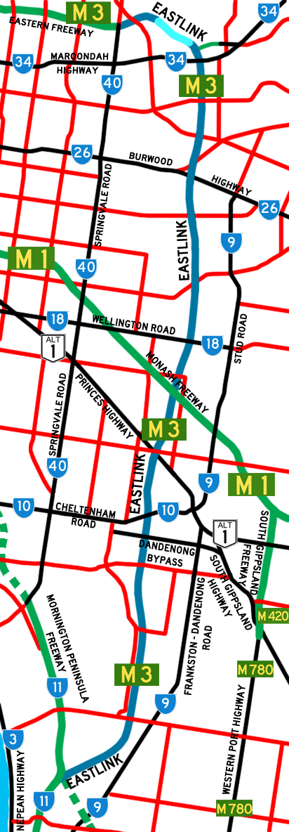 Map of EastLink